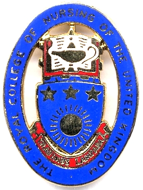 Photo of My own Royal College of Nursing Membership Badge